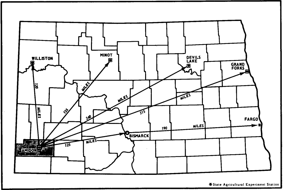 Distance between Amidon, ND and other cities